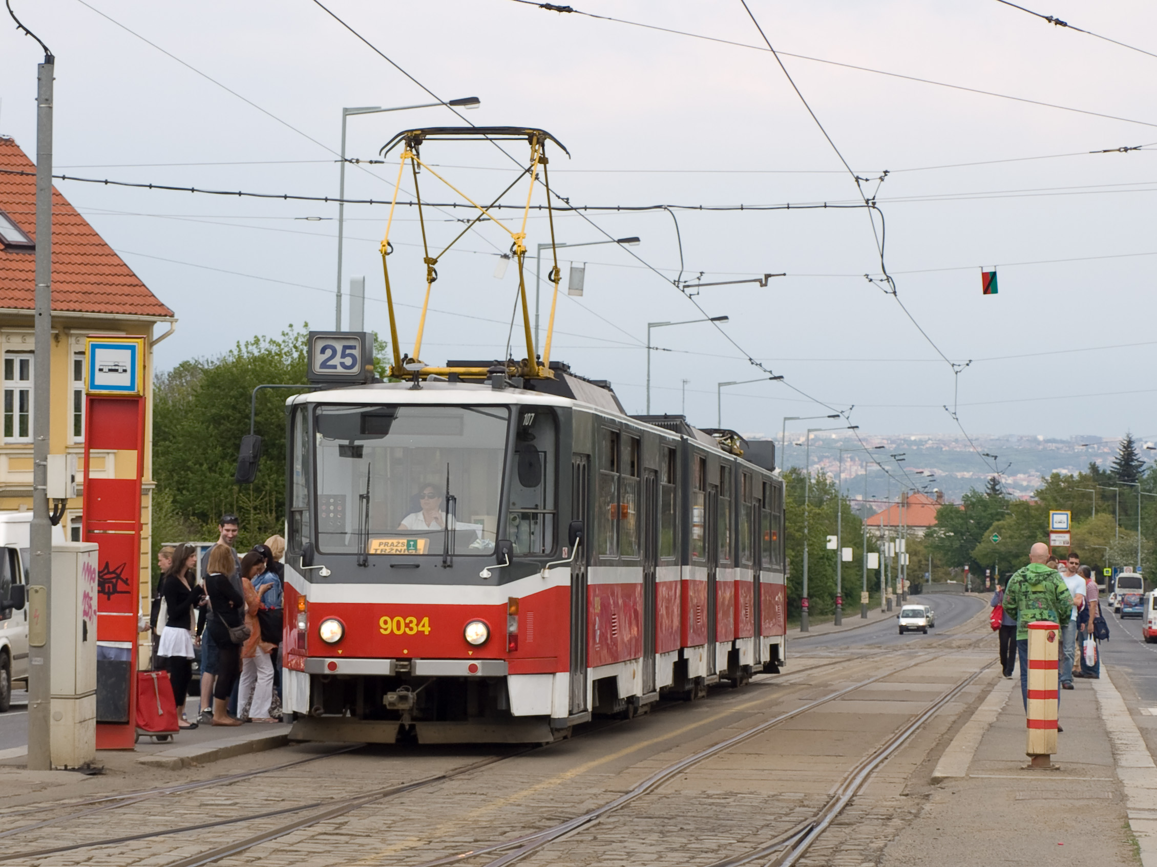 Tatra KT8D5, tram loop Vypich, Praha